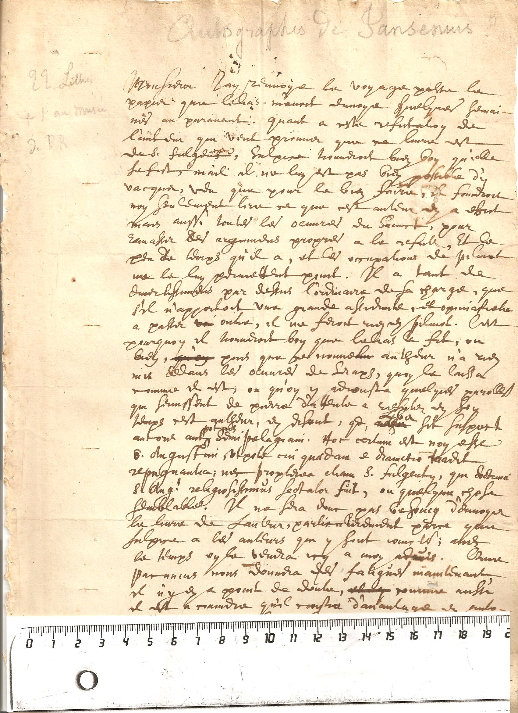 Autograph of Jansenius (1585 - 1638)